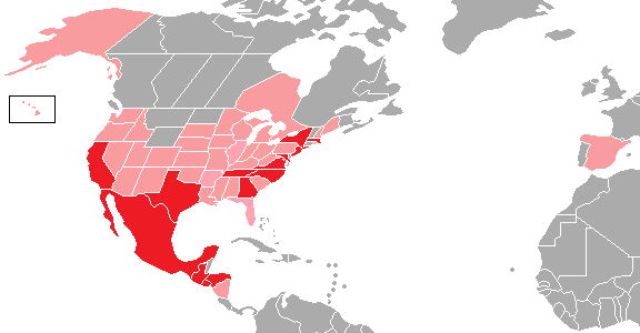 Locator map of countries and states with substantial presence of the criminal gang Mara Salvatrucha(/MS-13). territories with strong presence territories with lighter presence (Based on sources such as [6], [7],[8], [9], [10].